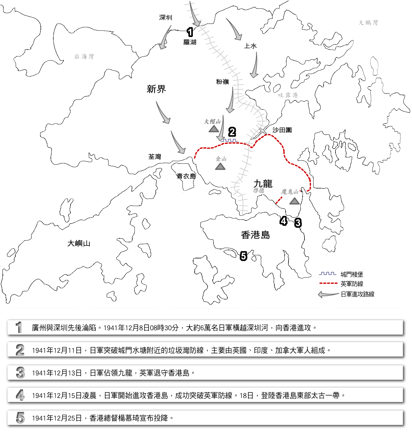 Battle of Hong Kong in December 1941.